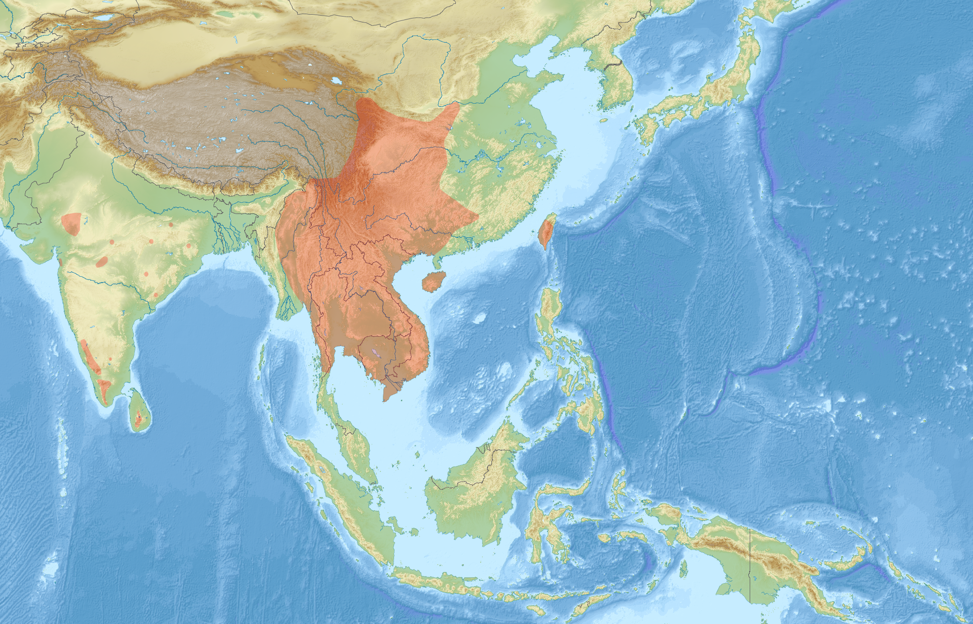 Distribution of Petaurista philippensis Projection: Equirectangular projection, strechted by 112.0%. Geographic limits of the map: N: 44.0° N S: -11.0° N W: 67.0° E E: 163.0° E GMT projection: -JX33.86666666666667cd/21.73111111111111cd GMT region: -R67.0/-11.0/163.0/44.0r GMT region for grdcut: -R67.0/-11.0/163.0/44.0r Relief: SRTM30plus. Made with Natural Earth. Free vector and raster map data @ .